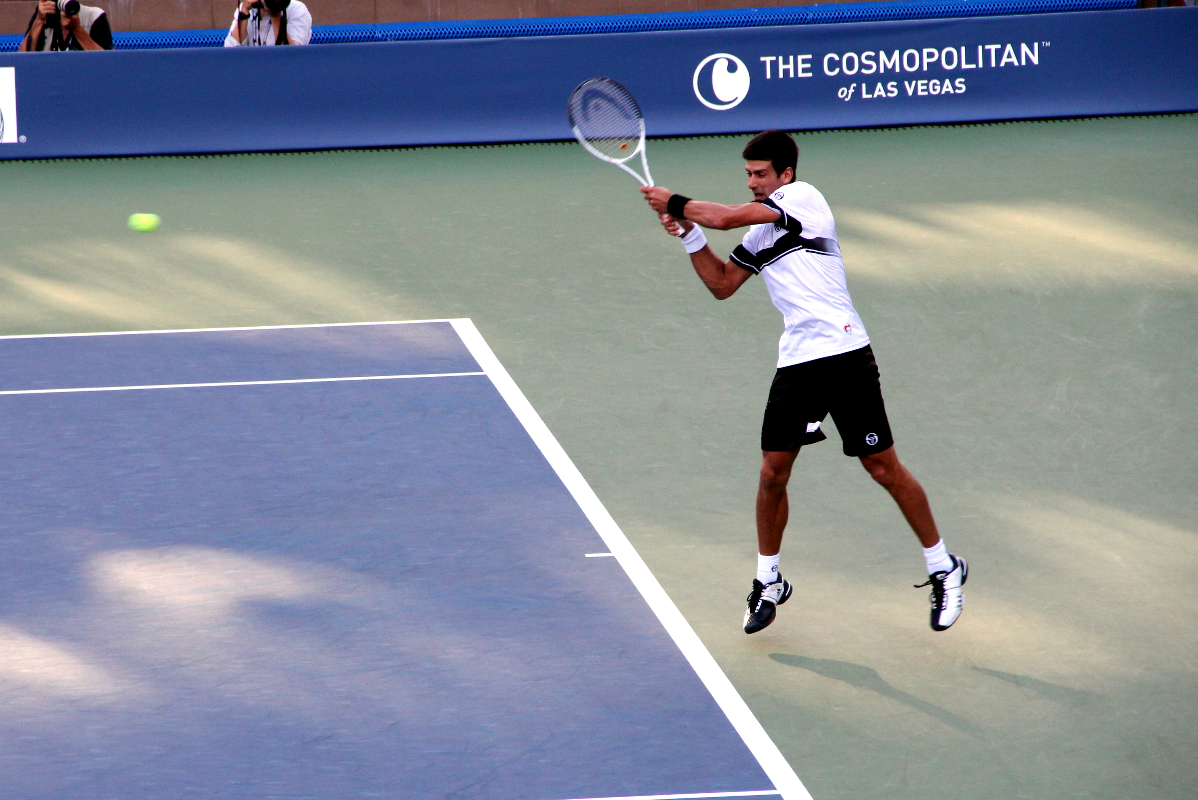 Novak Djokovic on Wednesday at the US Open where he won against Gael Monfils. The Cosmopolitan is in New York for the 2010 US Open, inviting attendees and guests to experience signature views from our Overlook and in our custom designed suite with prime-stadium seating. For more information on The Cosmopolitan visit